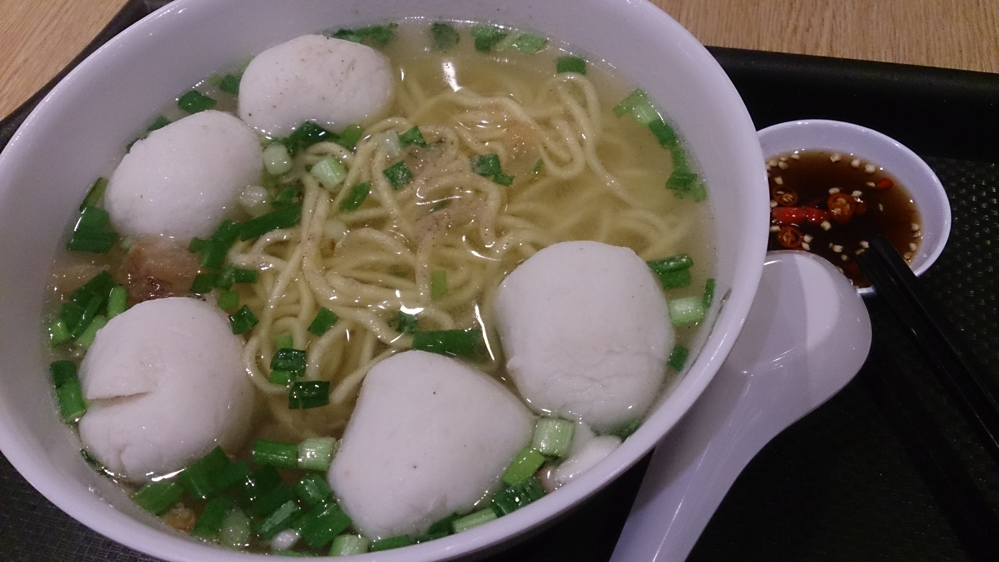 Teochew fishball noodles in Singapore